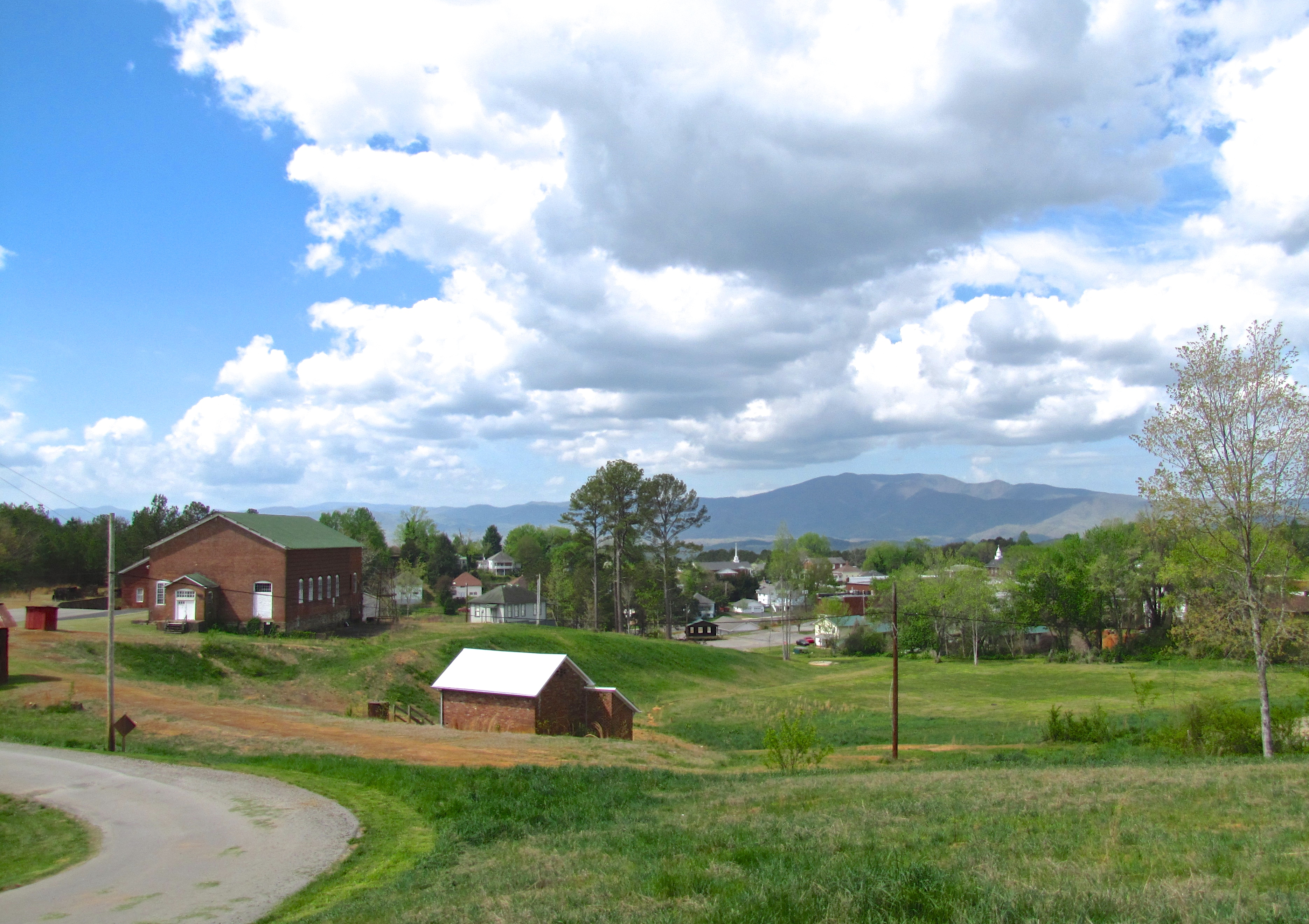 Ducktown, Tennessee, United States, viewed from near the intersection of Hiwassee Street and Burra Burra Street. Buildings that were once part of the Burra Burra mining operation (now part of the Ducktown Basin Museum) are on the left. Little Frog Mountain is visible on the horizon.